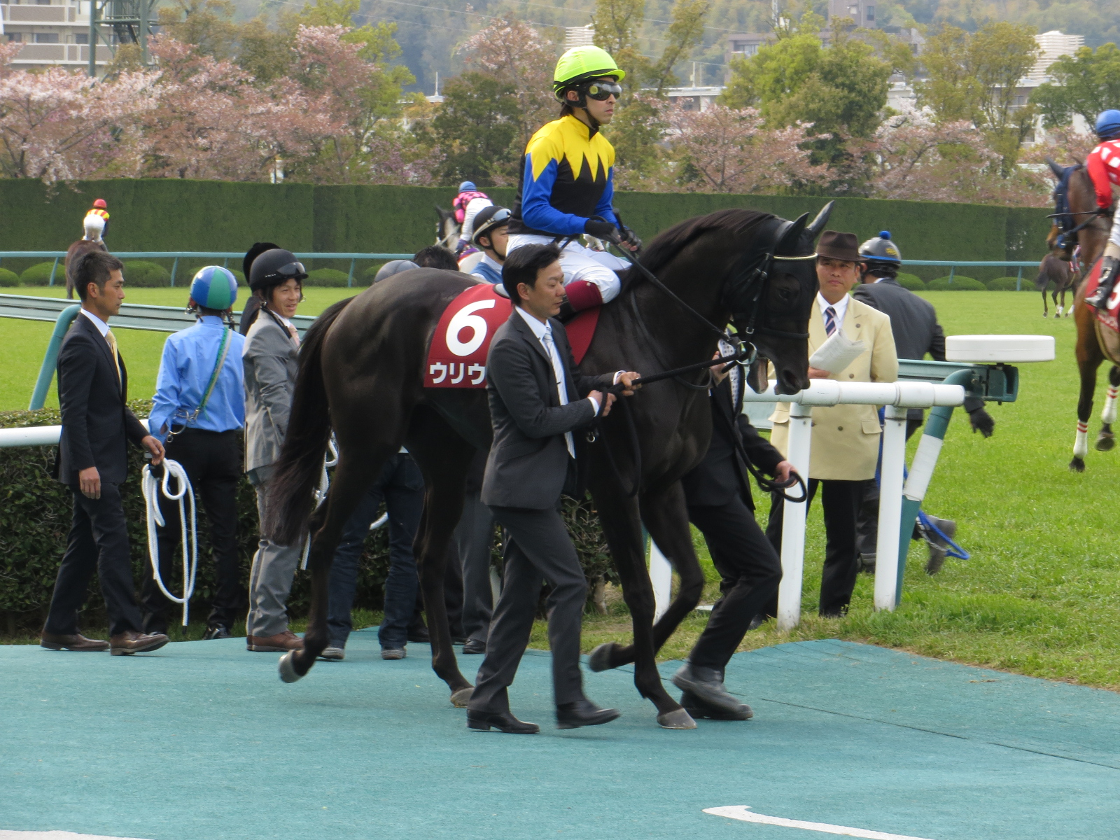 Uliuli (Racehorse of Japan).